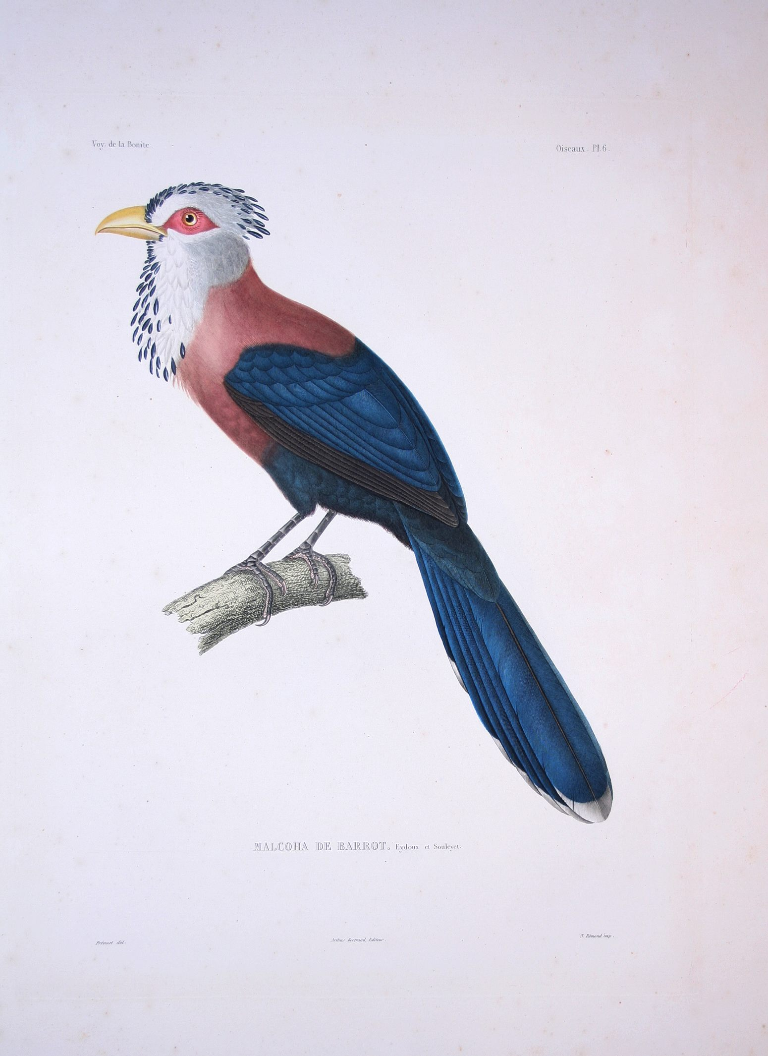 Scale-feathered Malkoha